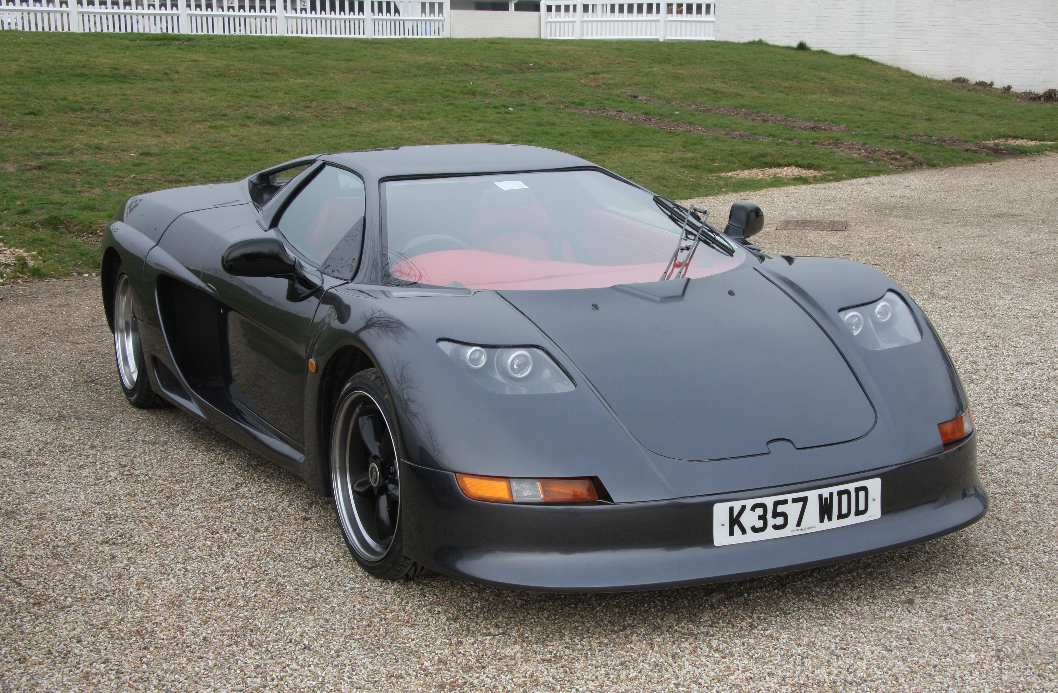 Auto Speciali Veleno No badges on it.